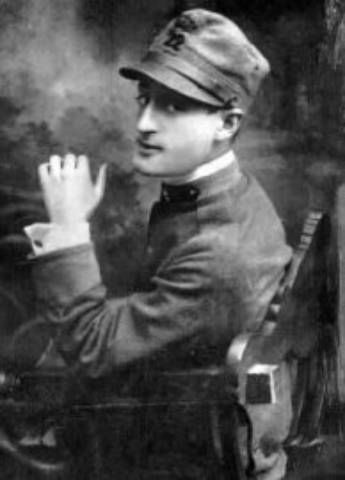 Italian actor Totò soldier in 1918